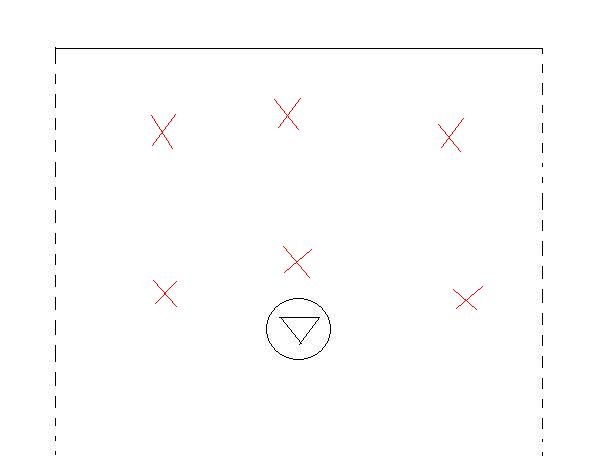 Lacrosse 3-3 Offense